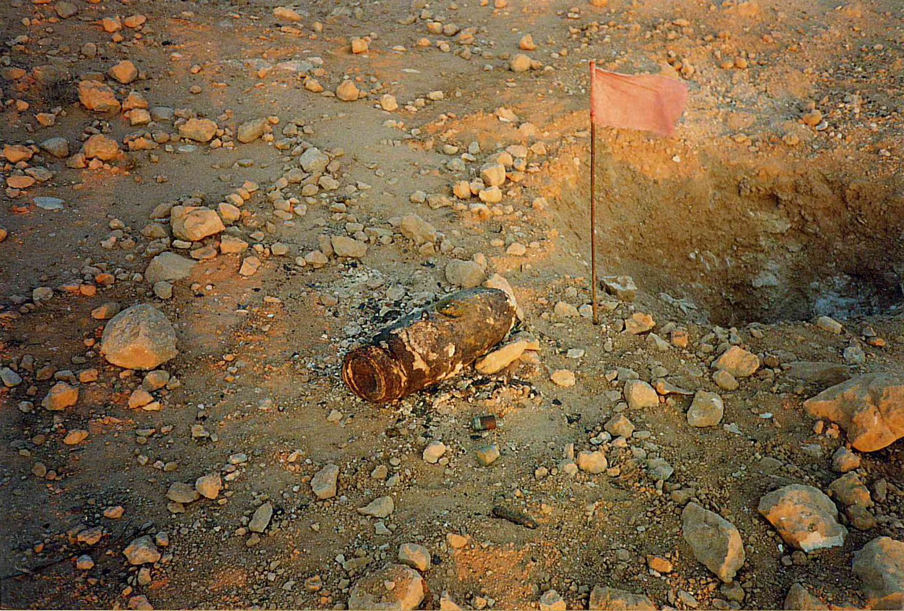 Granate near Bir Hacheim in the year 1990